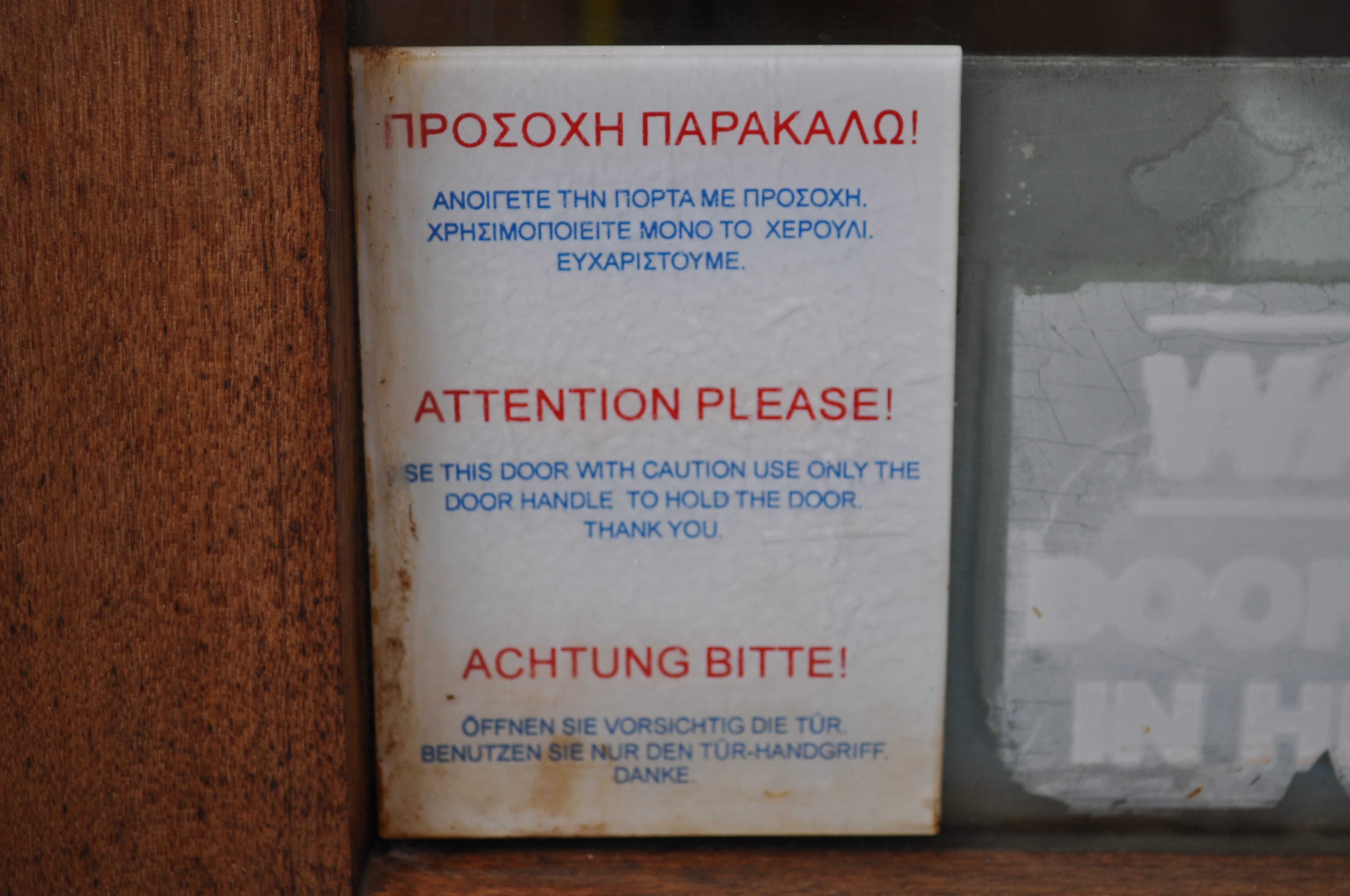 Spirit of Tasmania 1 signage is firstly in greek, which is surprising for a ship that operates in Australian waters.